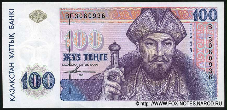 Kazakhstan 100 Tenge note